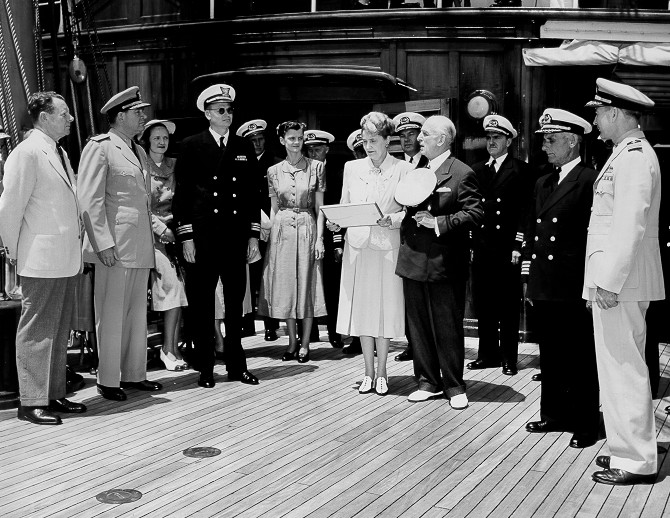 Future Guam governor Skinner aboard the USCGC Sea Cloud attending a presentation of a Naval Reserve Pennant. The Couple in the Centre are Marjorie Merriweather Post and her husband Ambassador Joseph E. Davies, owners of the Sea Cloud.